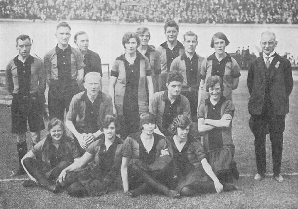 Korfball was a demonstration sport at the 1928 Summer Olympics in Amsterdam. Two teams participated. This is the red-black team